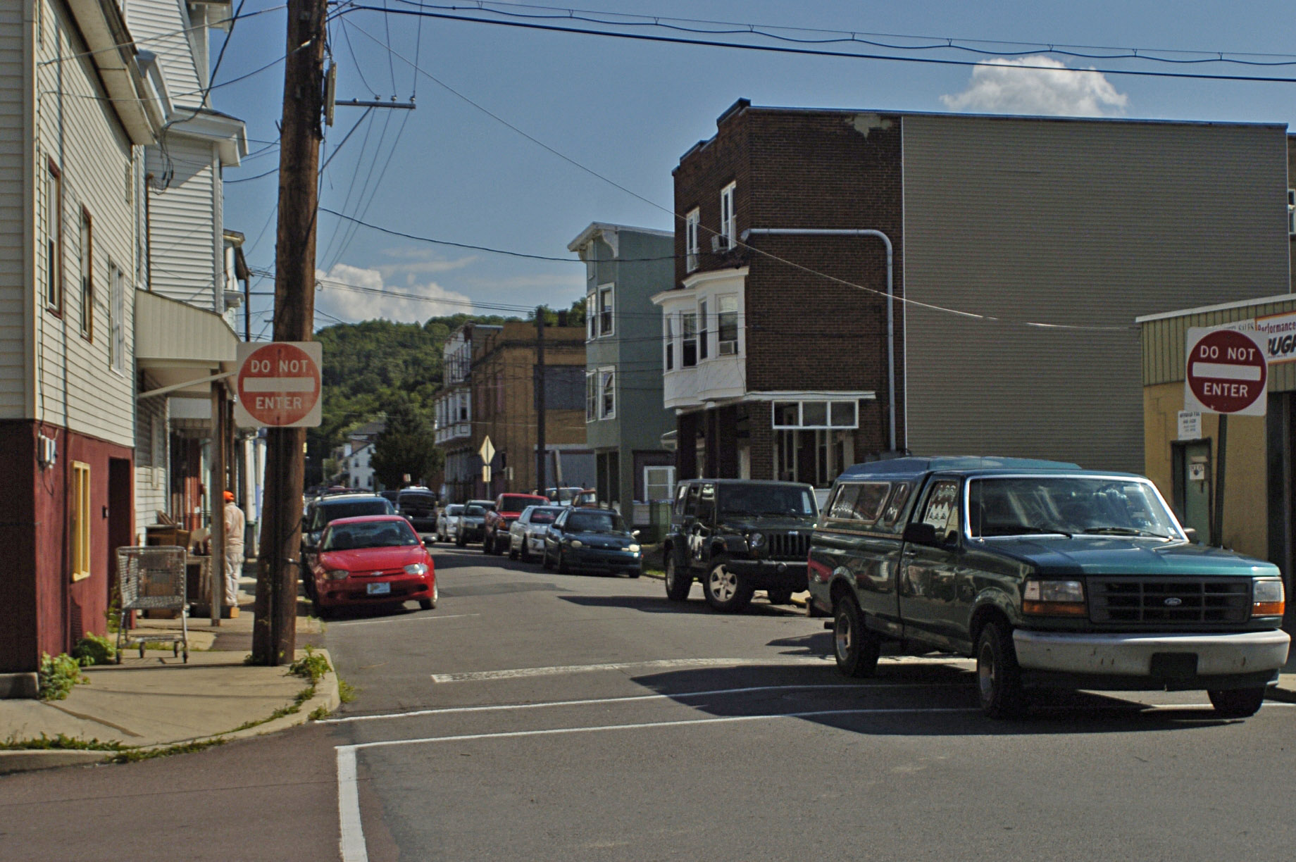 Photograph of Rock Street in Shamokin used in my Front page article in July, 2007 of the Shamokin News Item. This is the location of the Shamokin Uprising in 1877.